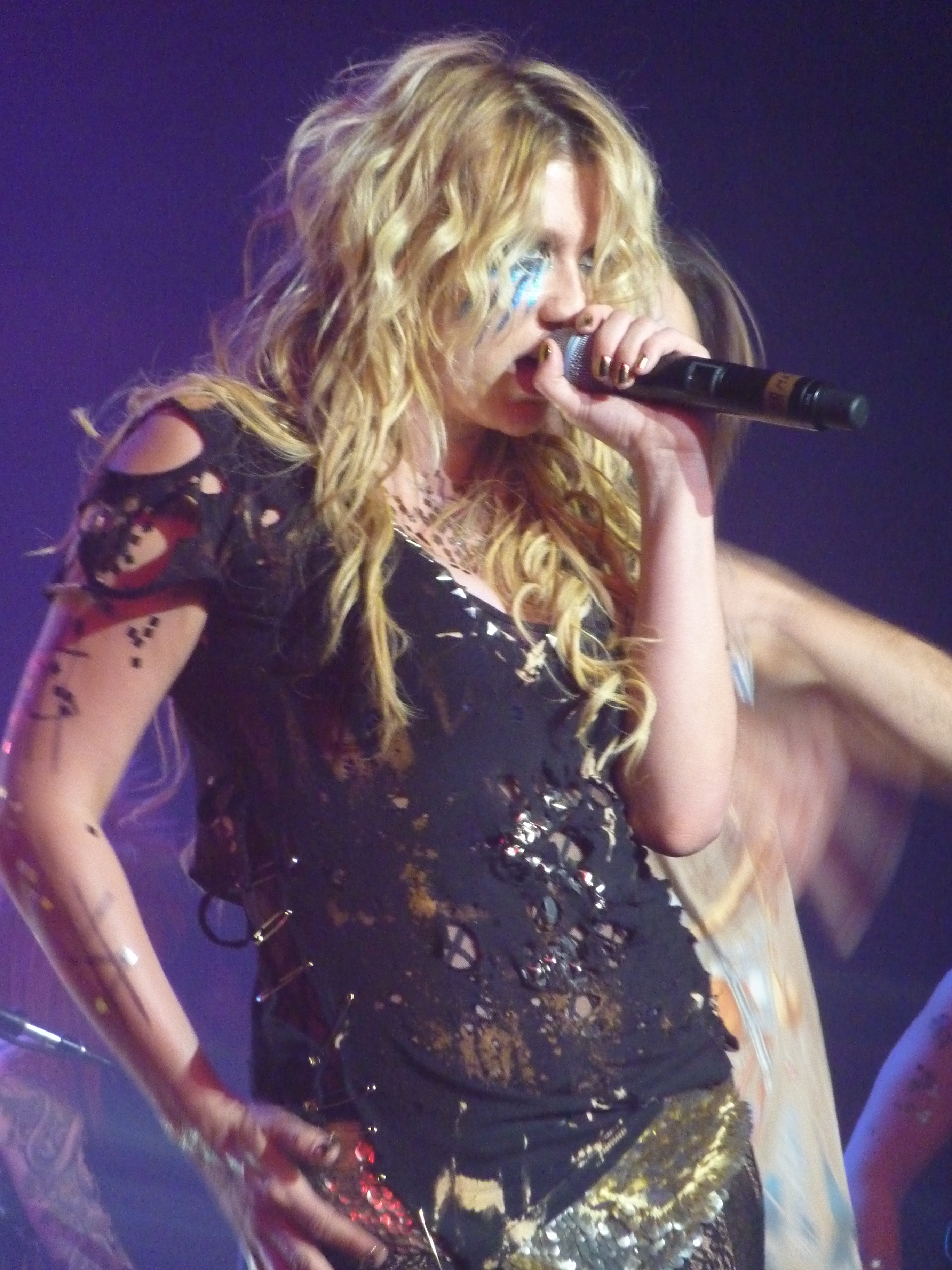 Kesha performing at Le Trianon in Paris in December 2010.